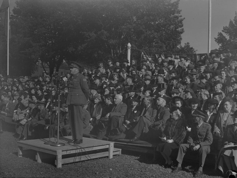 An officer standing behind a CBC microphone, speaks to soldiers of the regiment The Royal Montreal Regiment at an outdoor welcoming ceremony.